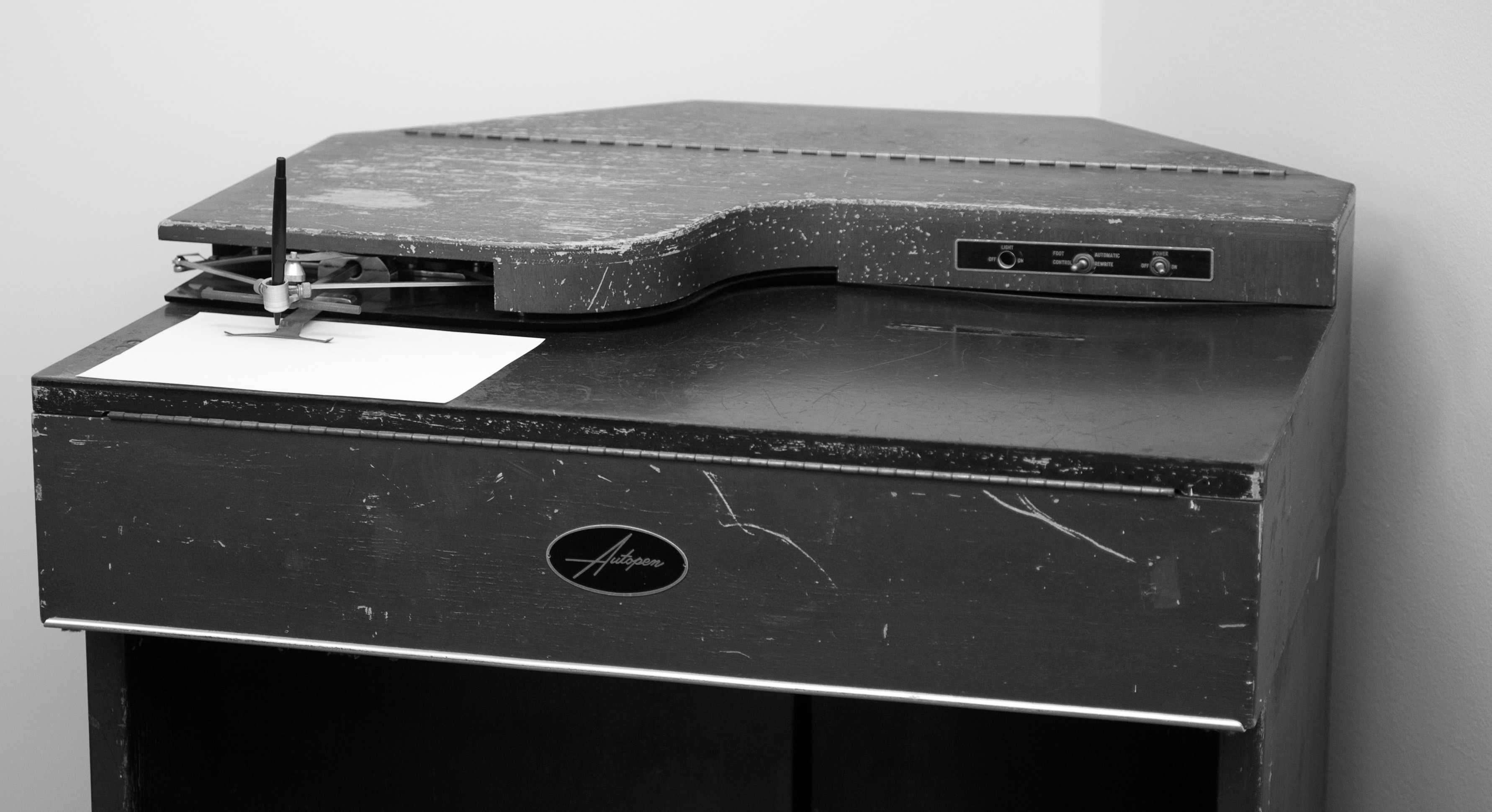 A recent photograph of the historical signature duplication machine, the Autopen Model 50 from the International Autopen Company.